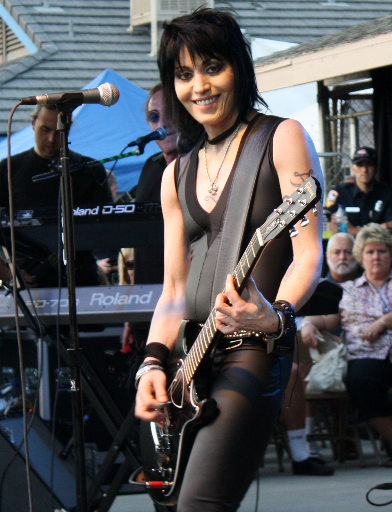 "Oh wow, Joan Jett smiled my way." Photograph taken in Beaumont, California during the 2010 Free Concert Series.